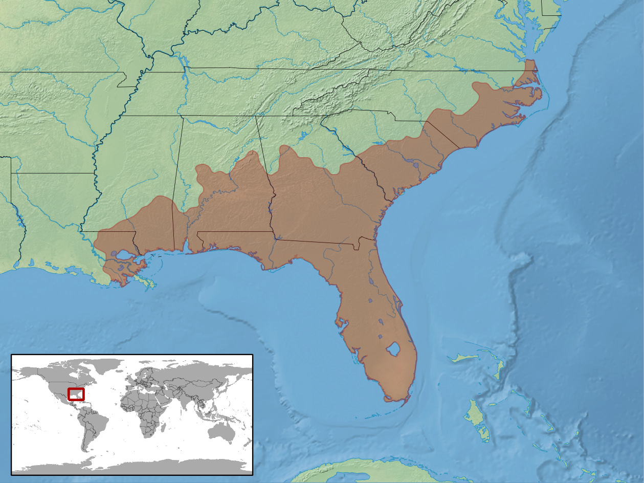 geographic distribution of Ophisaurus ventralis (Native: United States / Present - origin uncertain: Cayman Islands)